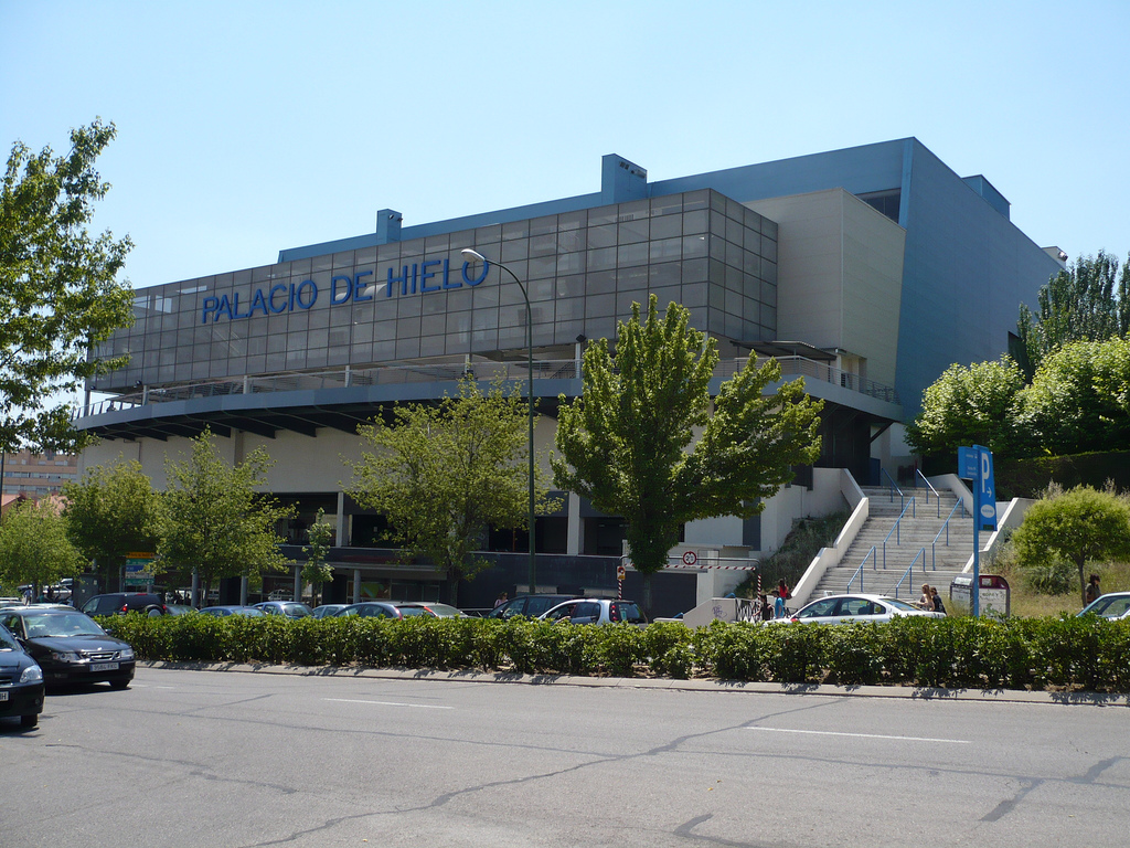 Façade of Palacio de Hielo ("Ice Palace"), ice skating building in Madrid (Spain).